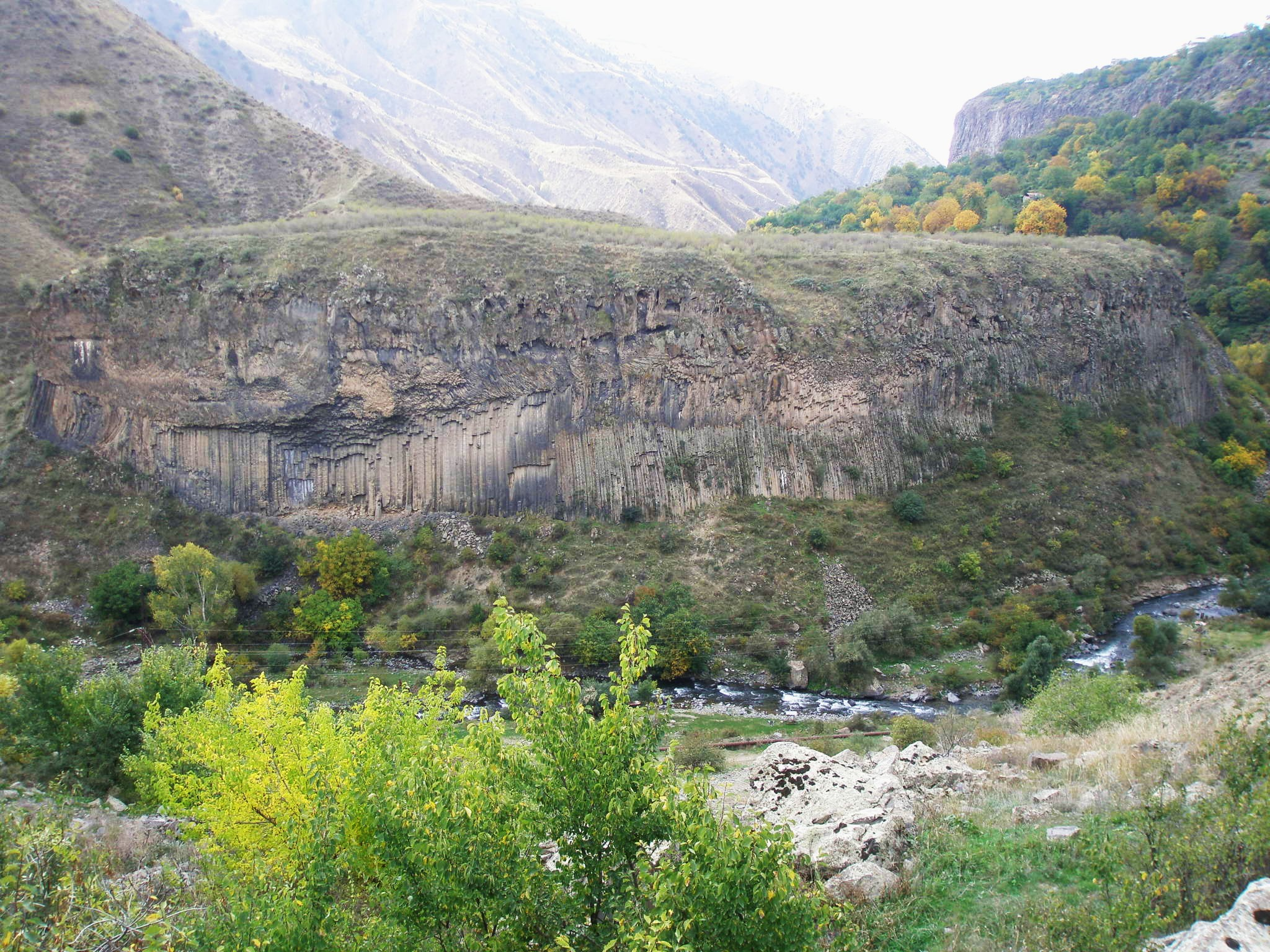 Garni Gorge, Armenia.